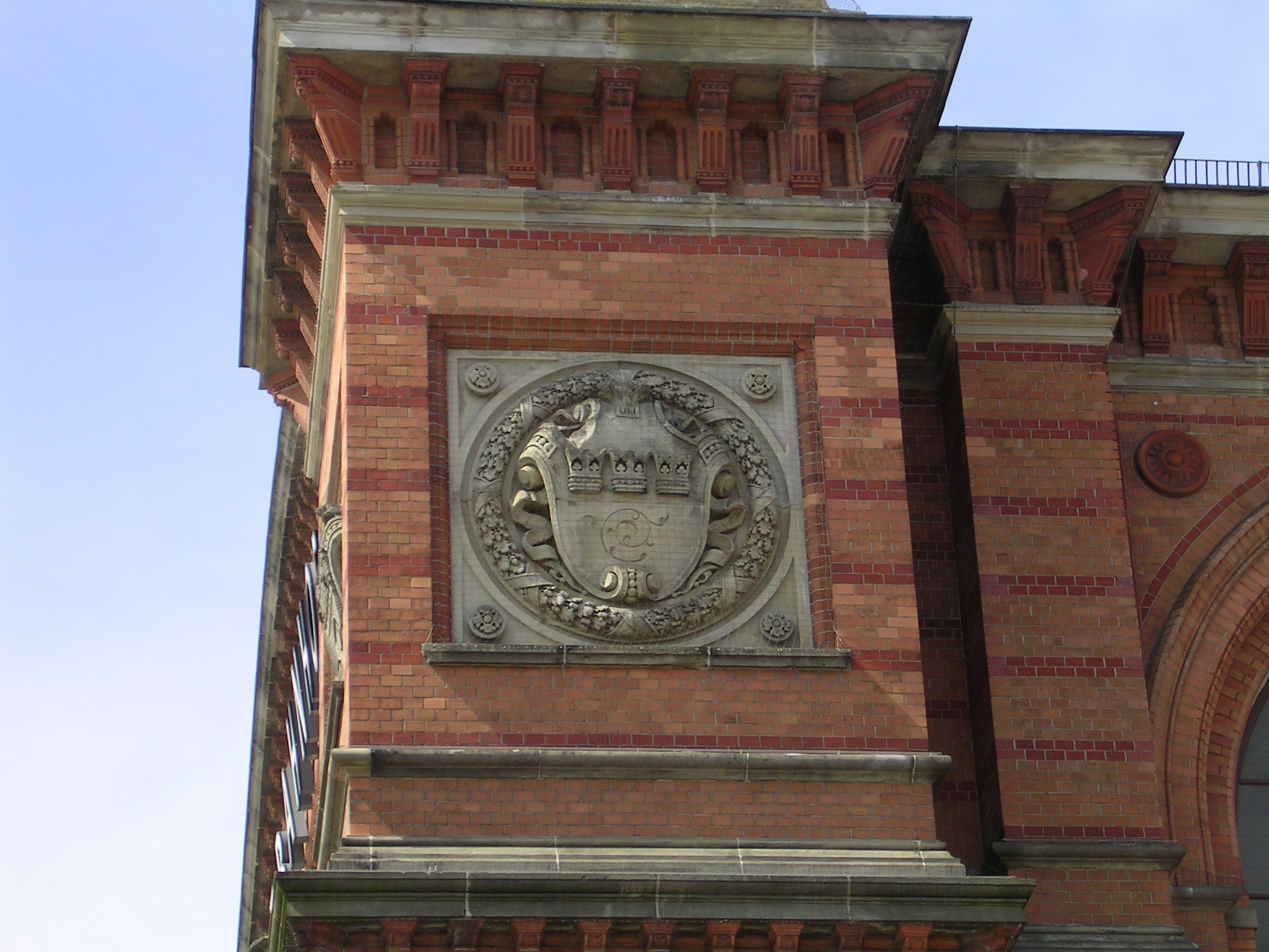 GE: Hauptbahnhof Bremen - EN: Bremen Main Train Station - Bremen City in Germany.